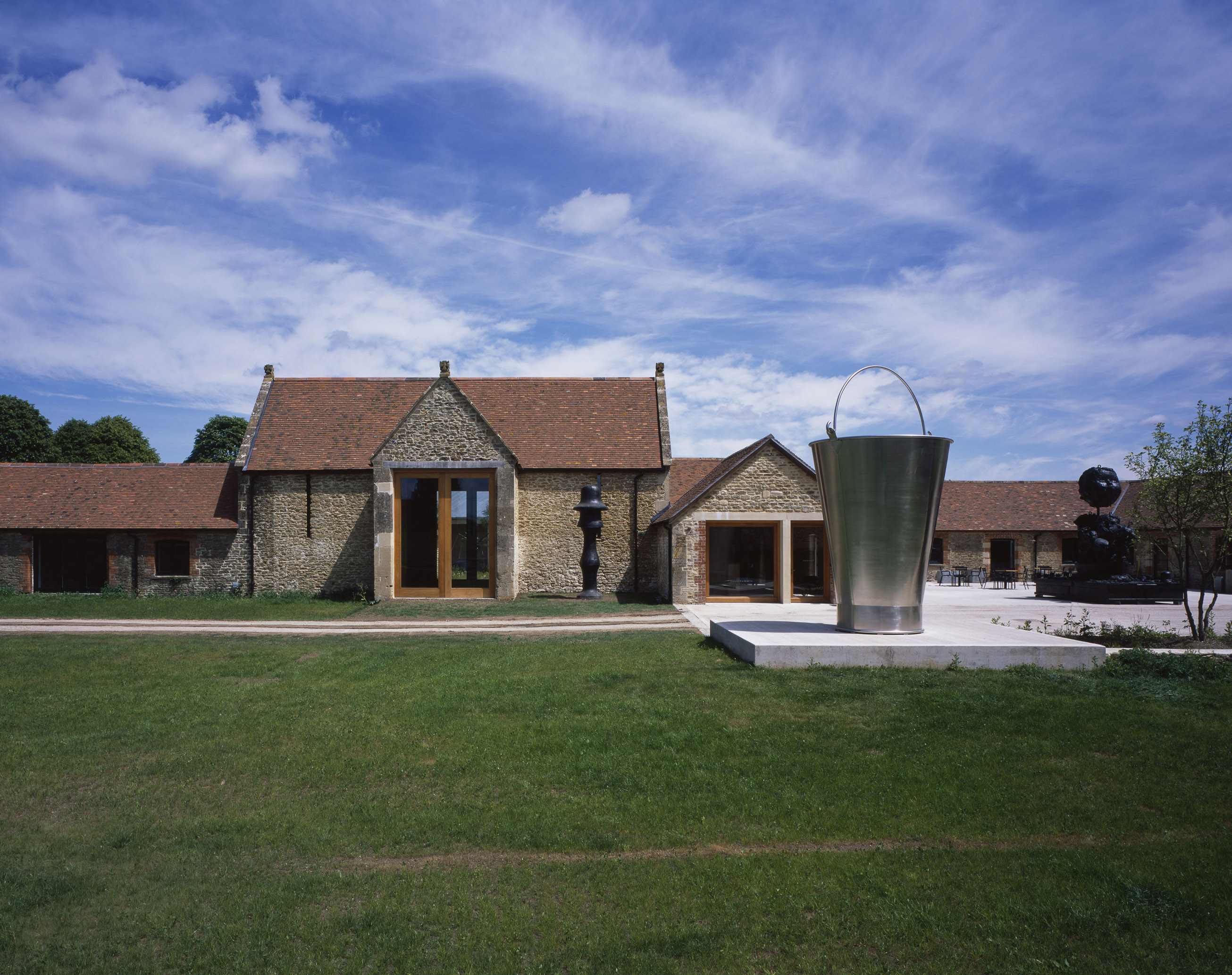 Hauser & Wirth Somerset grounds